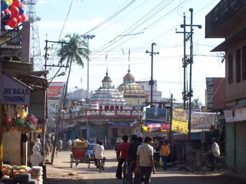 Dolomundai, Cuttack